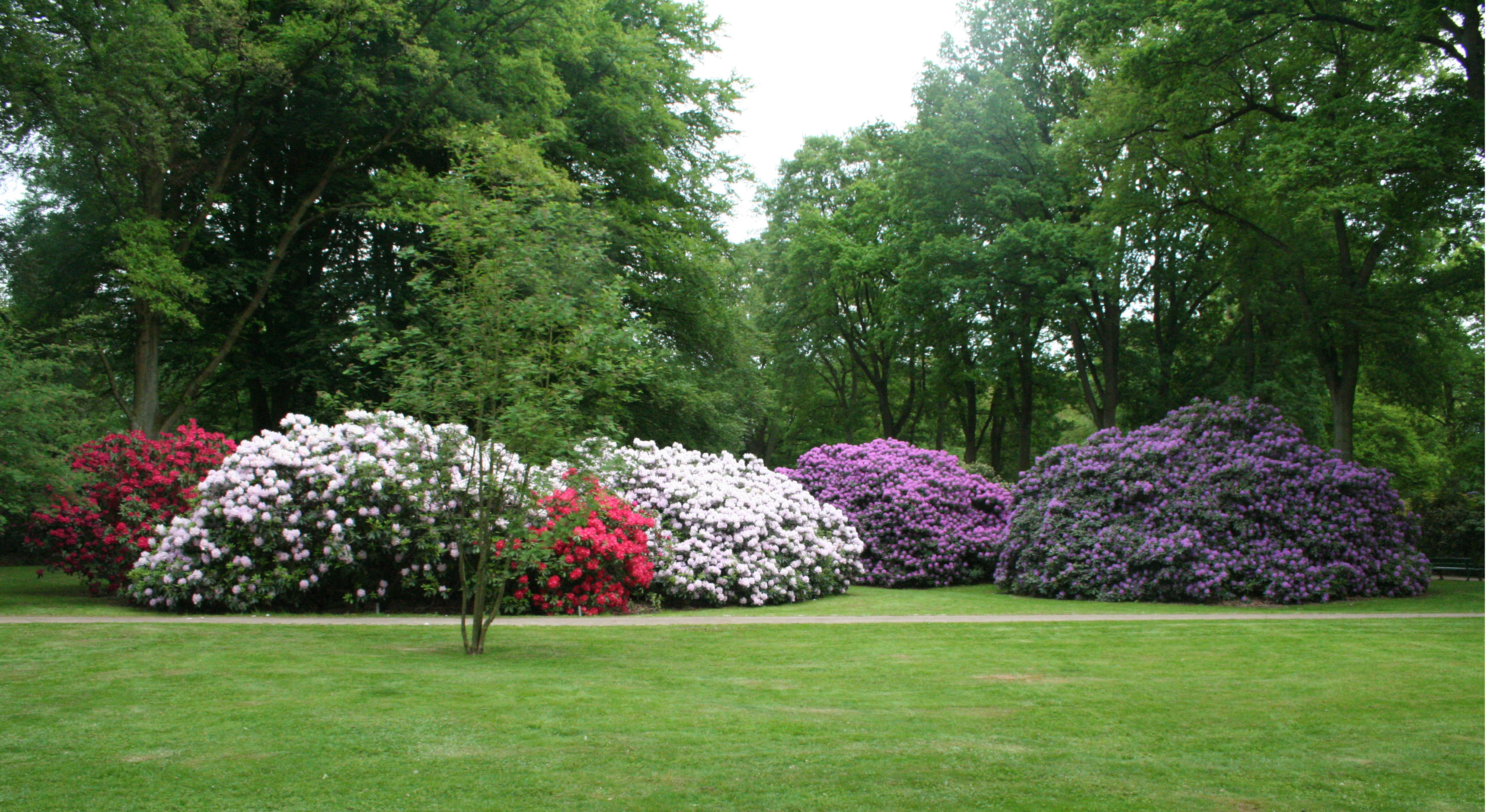 Rhododendronpark in Bremen, Germany